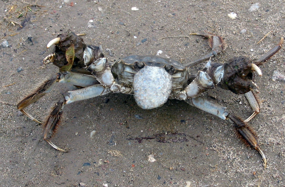 A Chinese mitten crab (Eriocheir sinensis) in the Waal (a river in the Netherlands.